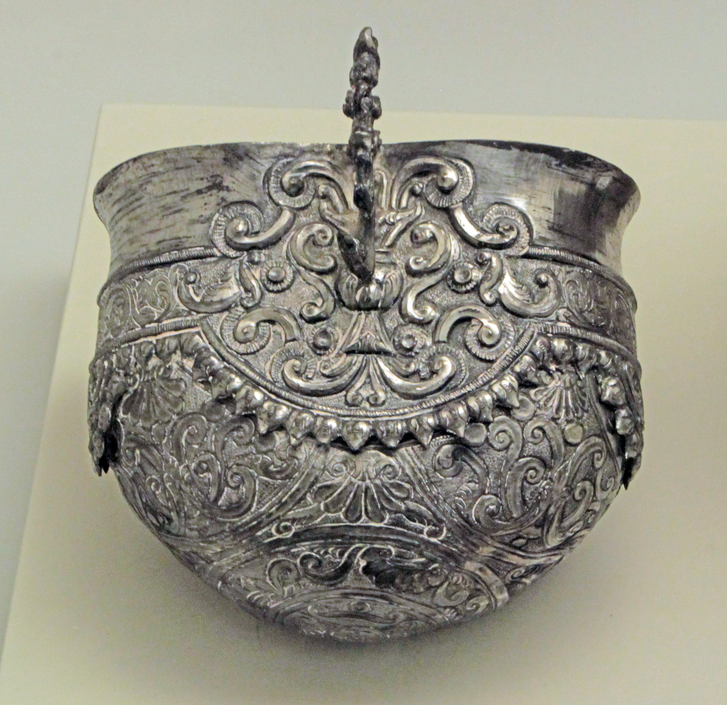 A mate gourd from the Charcas Province.